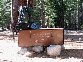 A stationary steel food storage box at a campsite. Photo by Peter Stekel